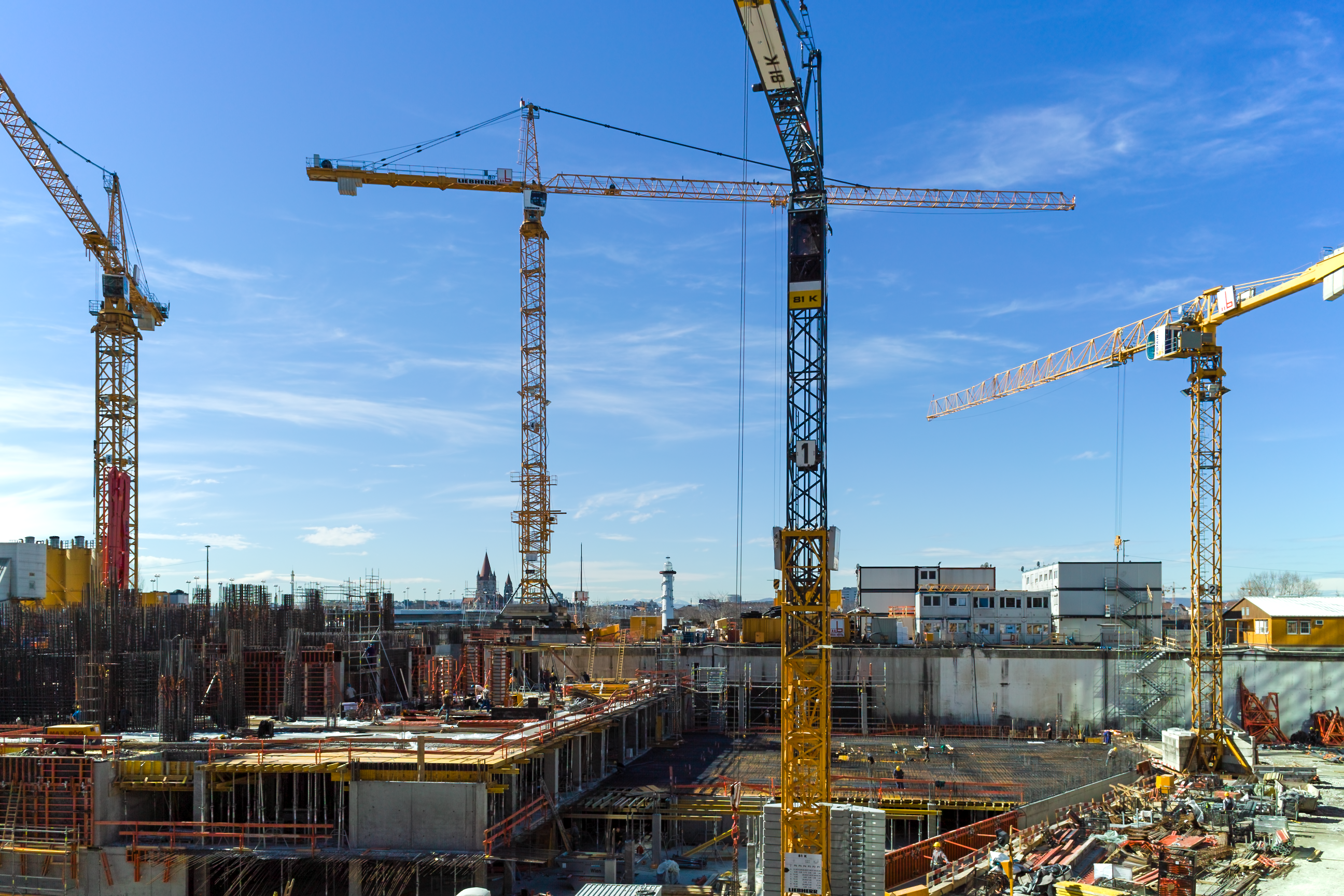 Construction of the DC Tower 1 in the Donau-City, Vienna from northeast on March 14th, 2011.